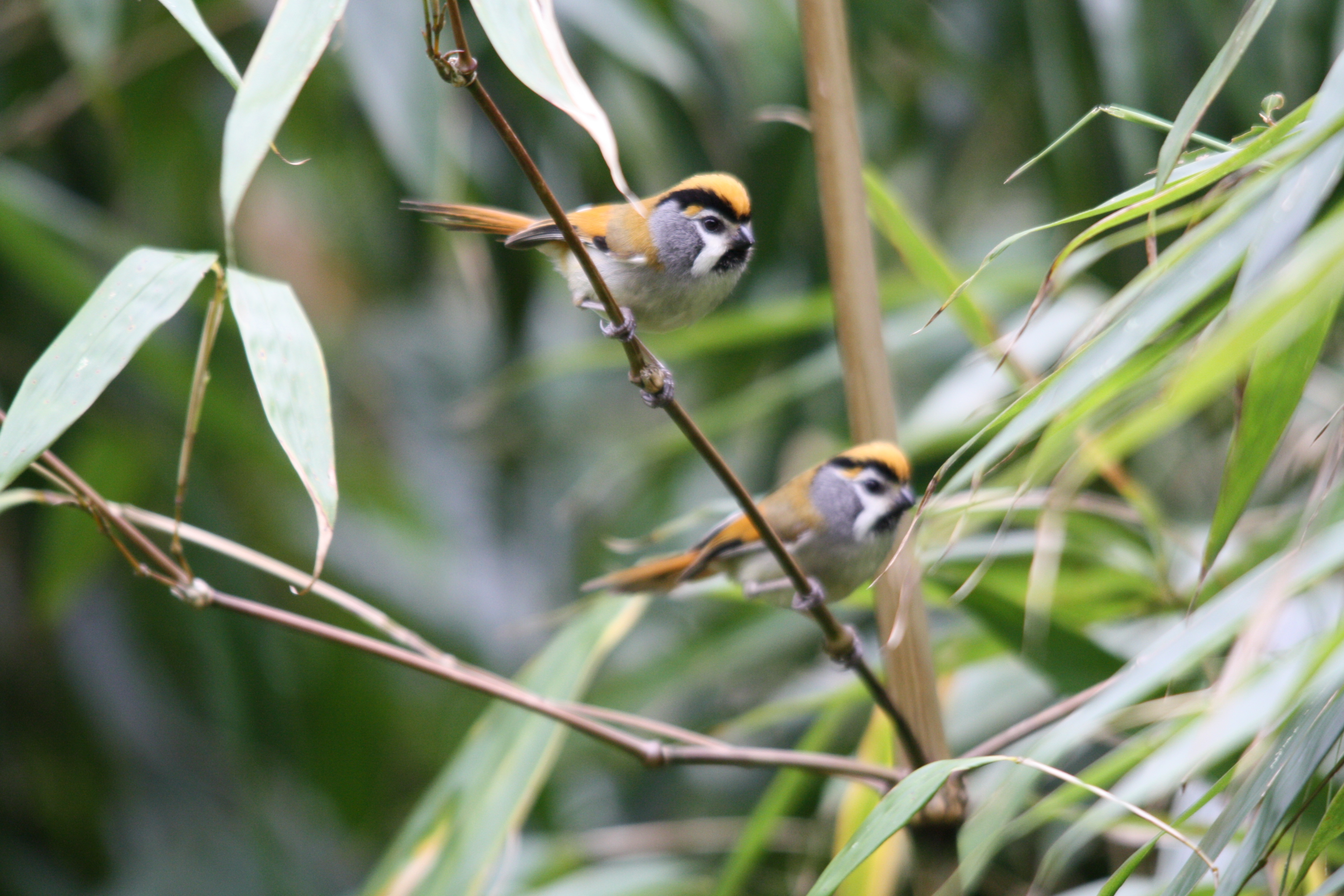 This image was captured in Mishimi Hills in Arunachal Pradesh using a Cannon 1000D with Sigma 150-500, f5.6 lens